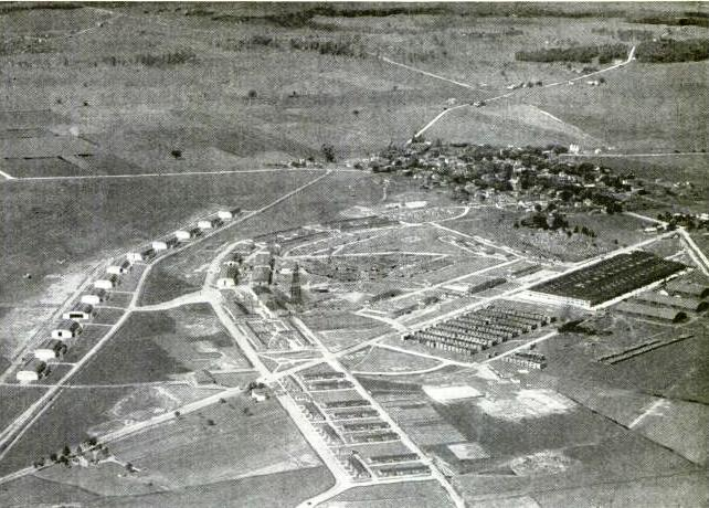 Aerial photograph of Wilbur Wright Field, now Wright Patterson Air Force Base circa 1920.